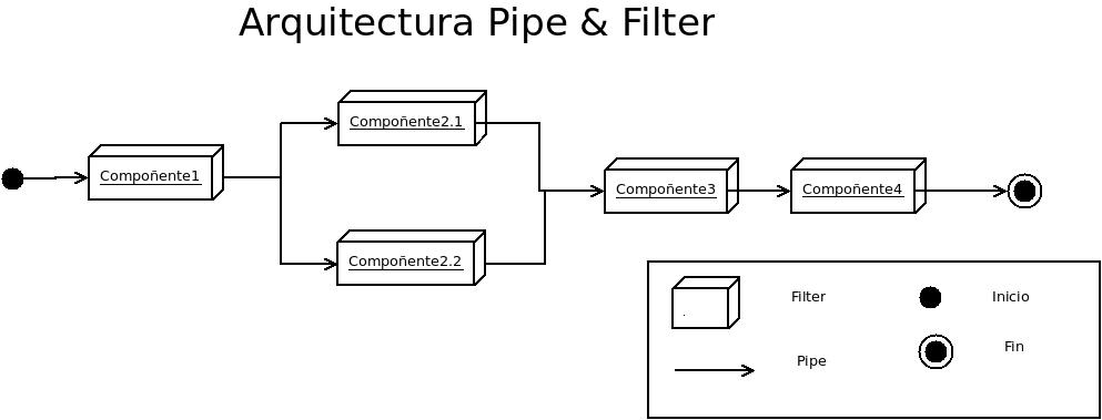 Pipe & Filter Architecture